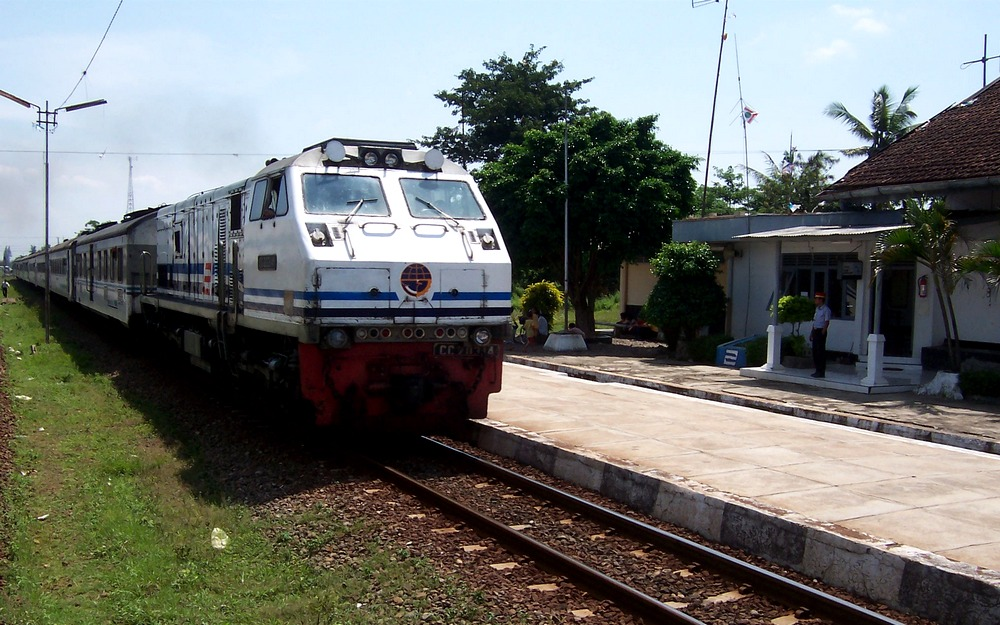 Taksaka train, passing Sindanglaut train-station, Cirebon, West Java.